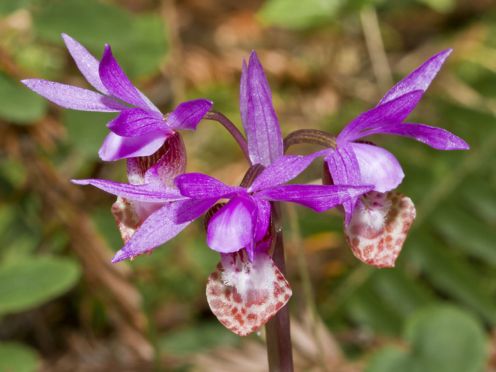 Calypso bulbosa. During my visit to Mendocino Co., CA, USA, I saw, literally, THOUSANDS of the beautiful orchids in bloom. In one closed campground there were patches of a hundred or more scattered throughout. I can only imagine how many were in bloom in these forests. April 6